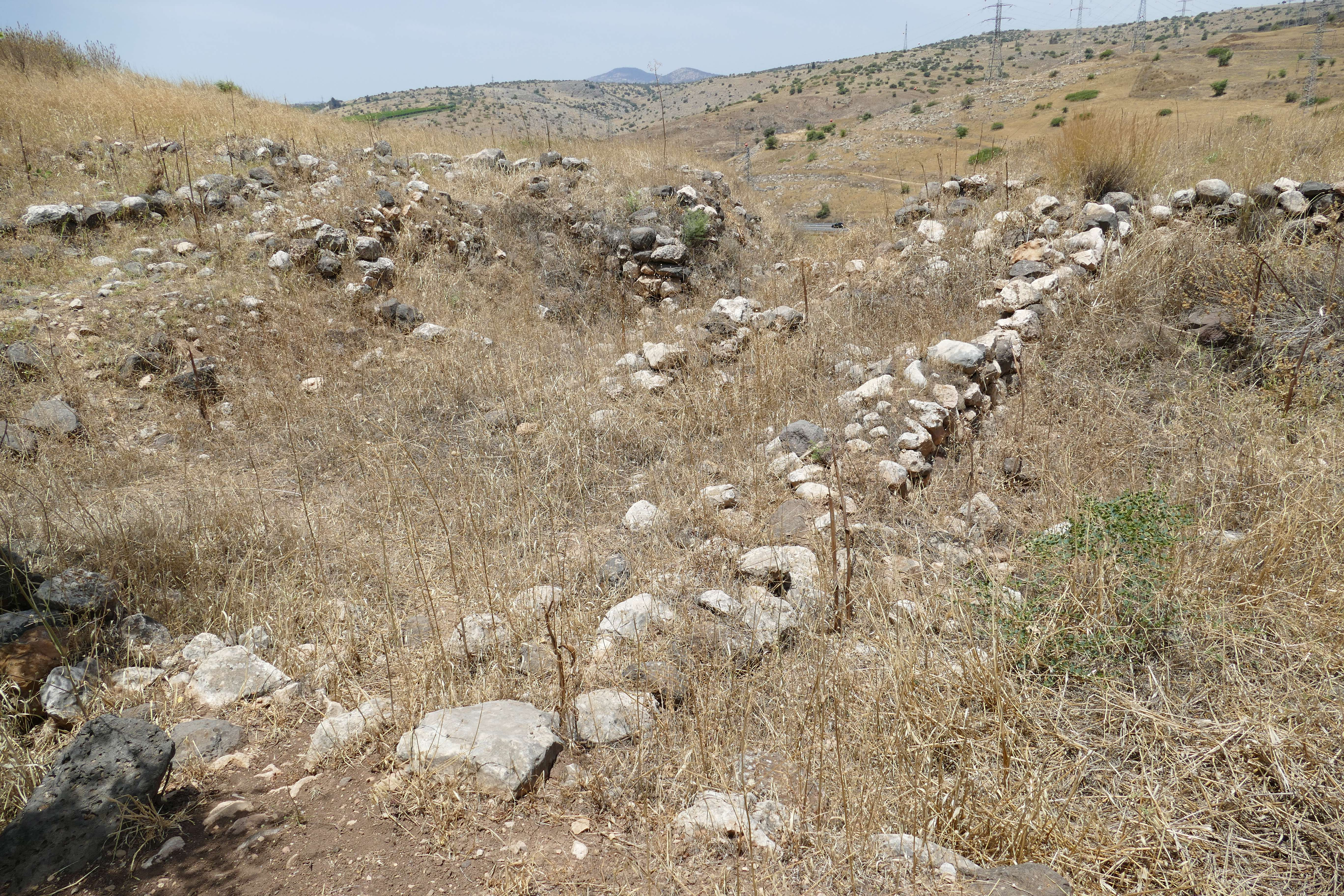 Tel Kinarot, Israel.